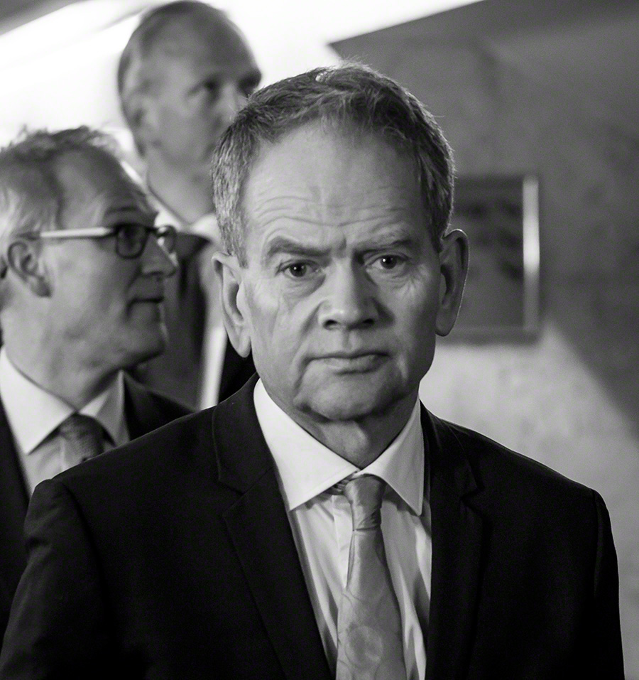 Magnus Takvam at Governor Øystein Olsen's annual address in February 2016